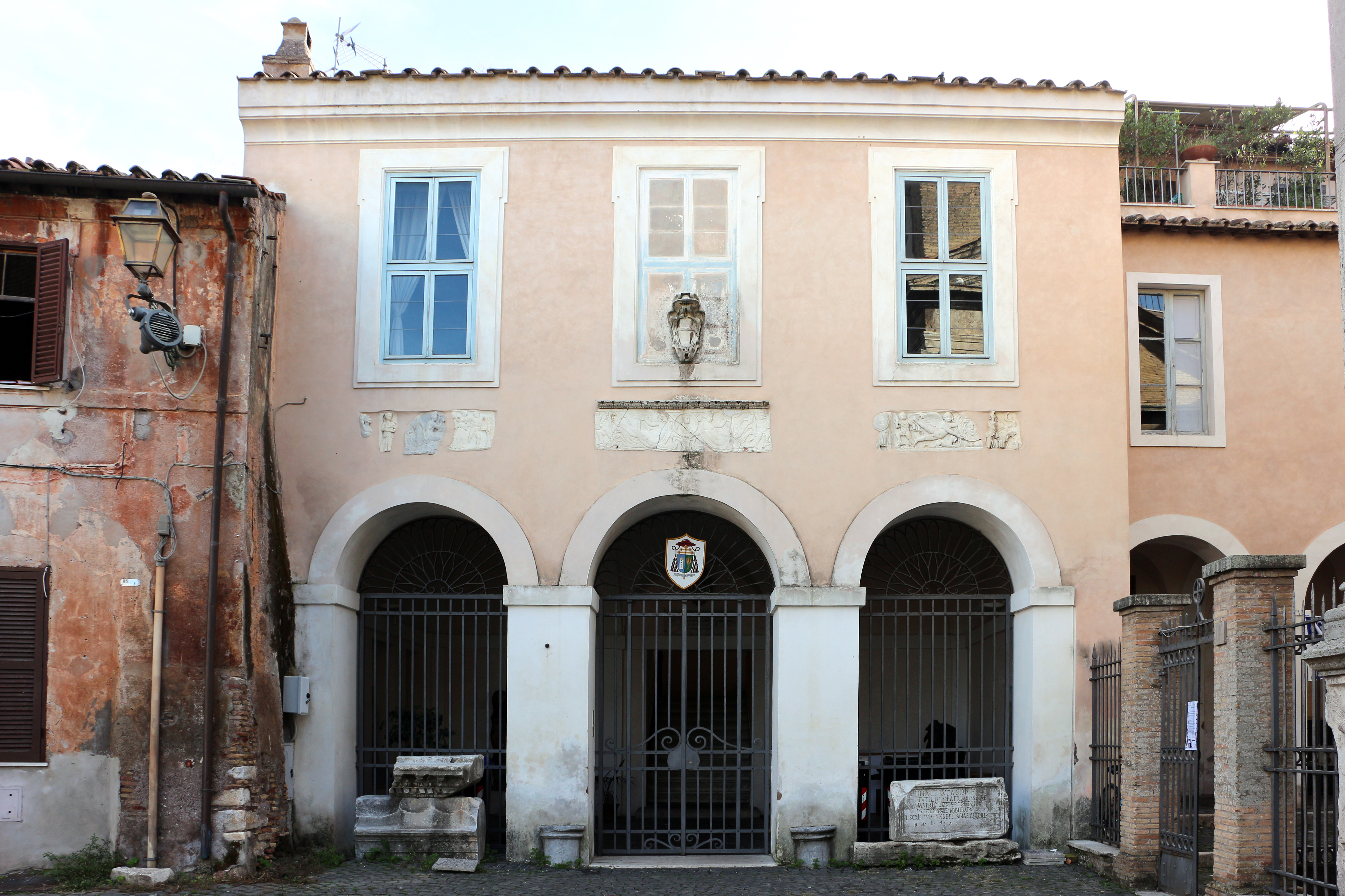 Ostia Antica Borgo